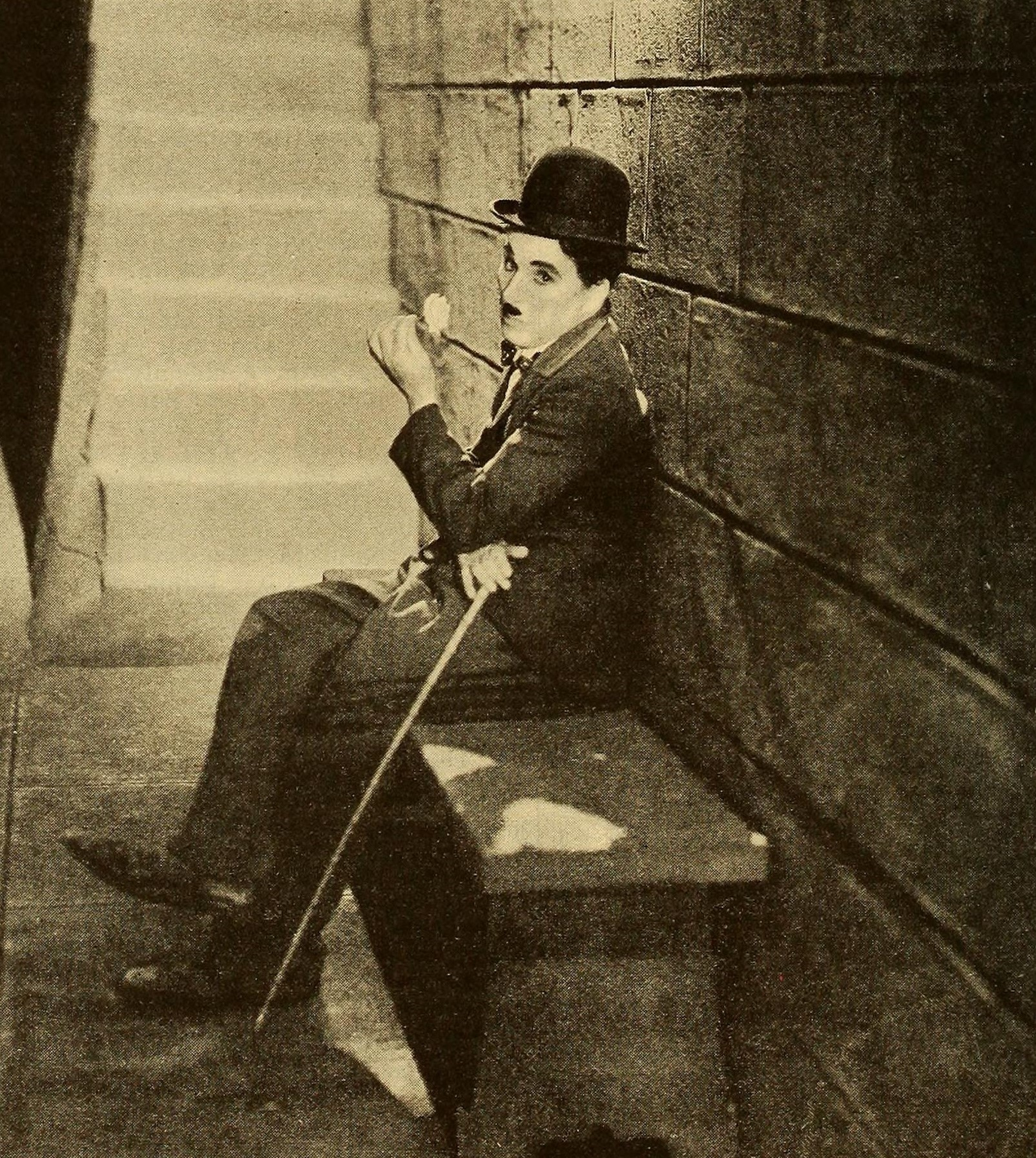 The New Movie, August 1930